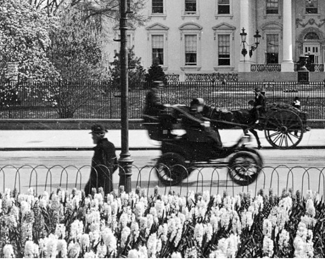 "Victoria" electric cab on Pennsylvania Ave., Washington City, seen from Lafayette Park in 1905.